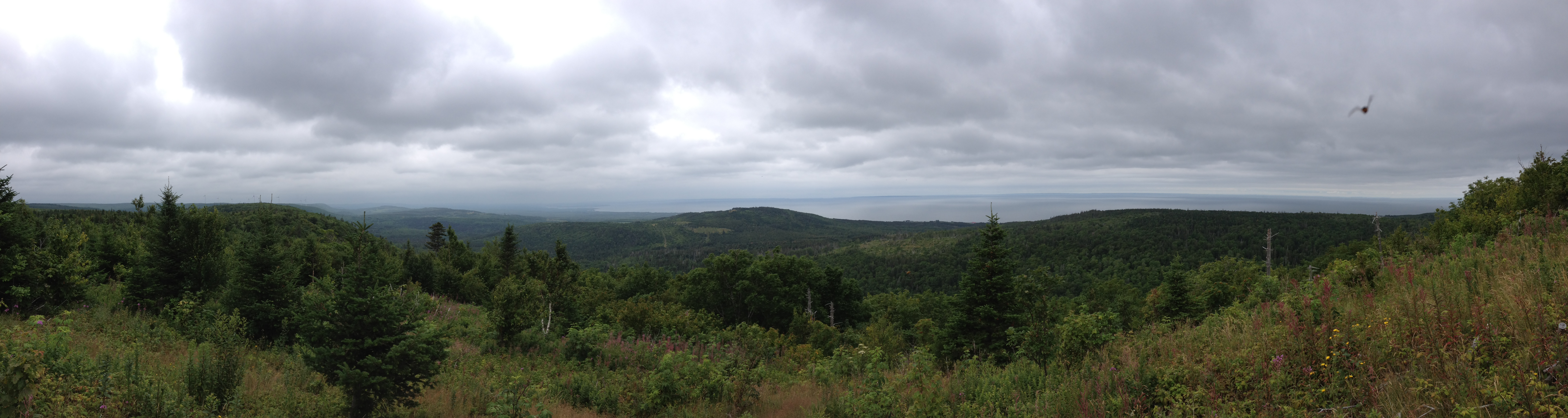 View from a former field on Eigg Moutain, Nova Scotia, Canada, looking northeast toward Prince Edward Island.